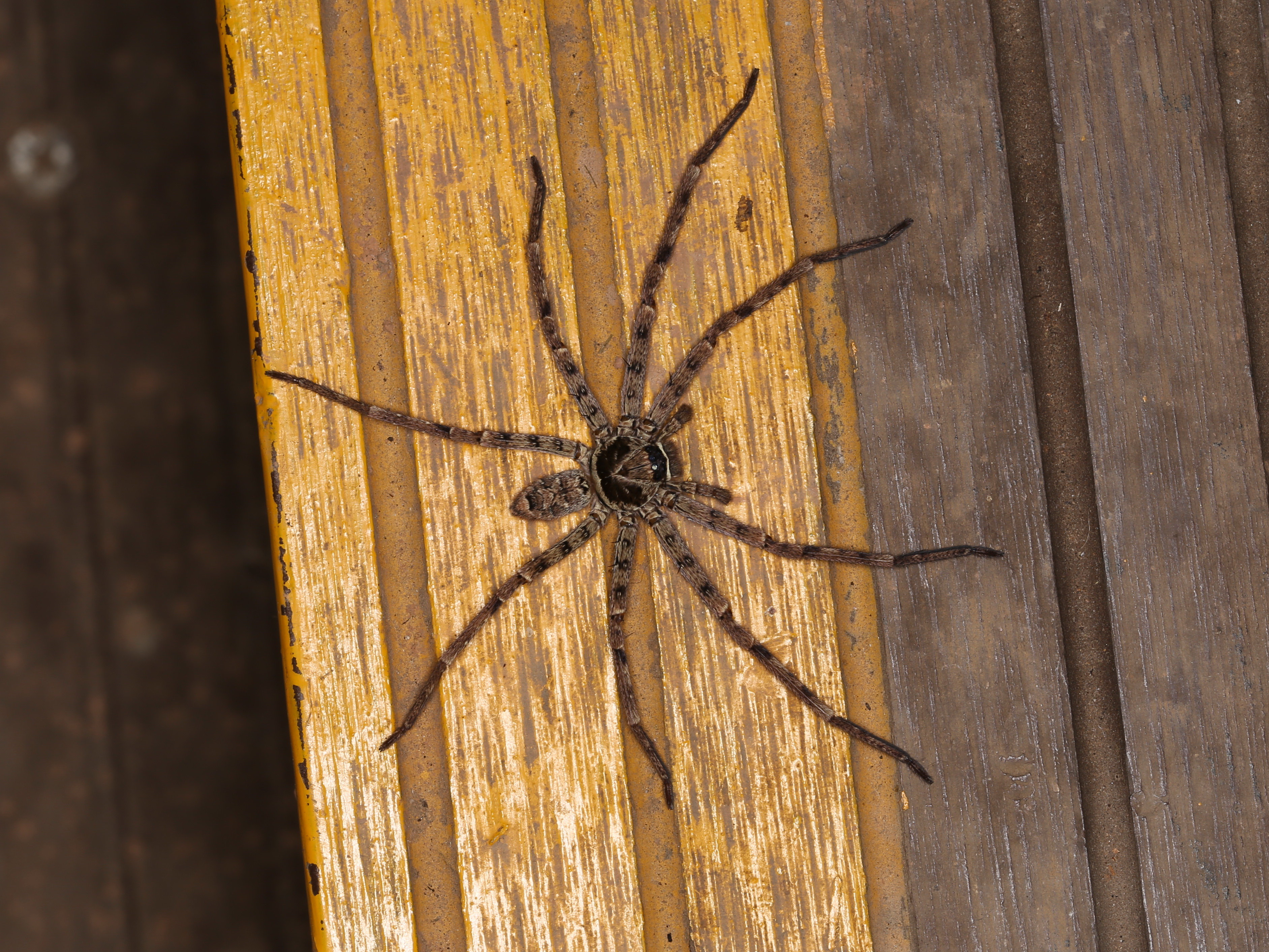 Heteropoda venatoria (Linnaeus, 1767), Xishuangbanna Tropical Botanical Garden, Yunnan, China, 20 March 2018